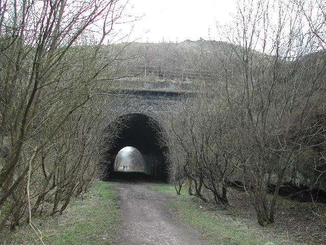 Birchall Tunnel, North Staffs. The former Churnet Valley Railway, that ran between Uttoxeter and North Rode (south of Macclesfield), was originally intended as a secondary link between Manchester and Derby. Passenger trains were withdrawn in 1965 but part has reopened as a heritage line. This is the north portal of a short tunnel on the section between Leekbrook Junction and Leek that now forms part of the Staffordshire Way long distance path.